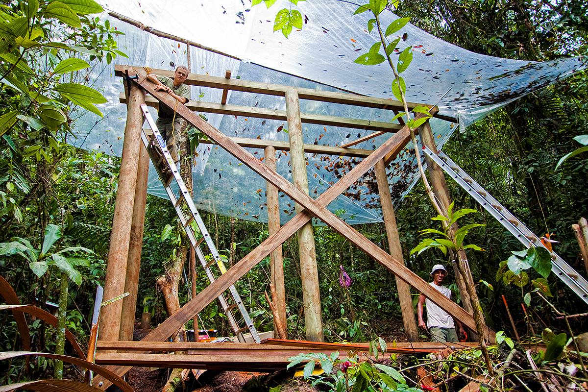 Bence Mate is building a Tower blind for photographing birds in the Costa Rican rain forest.